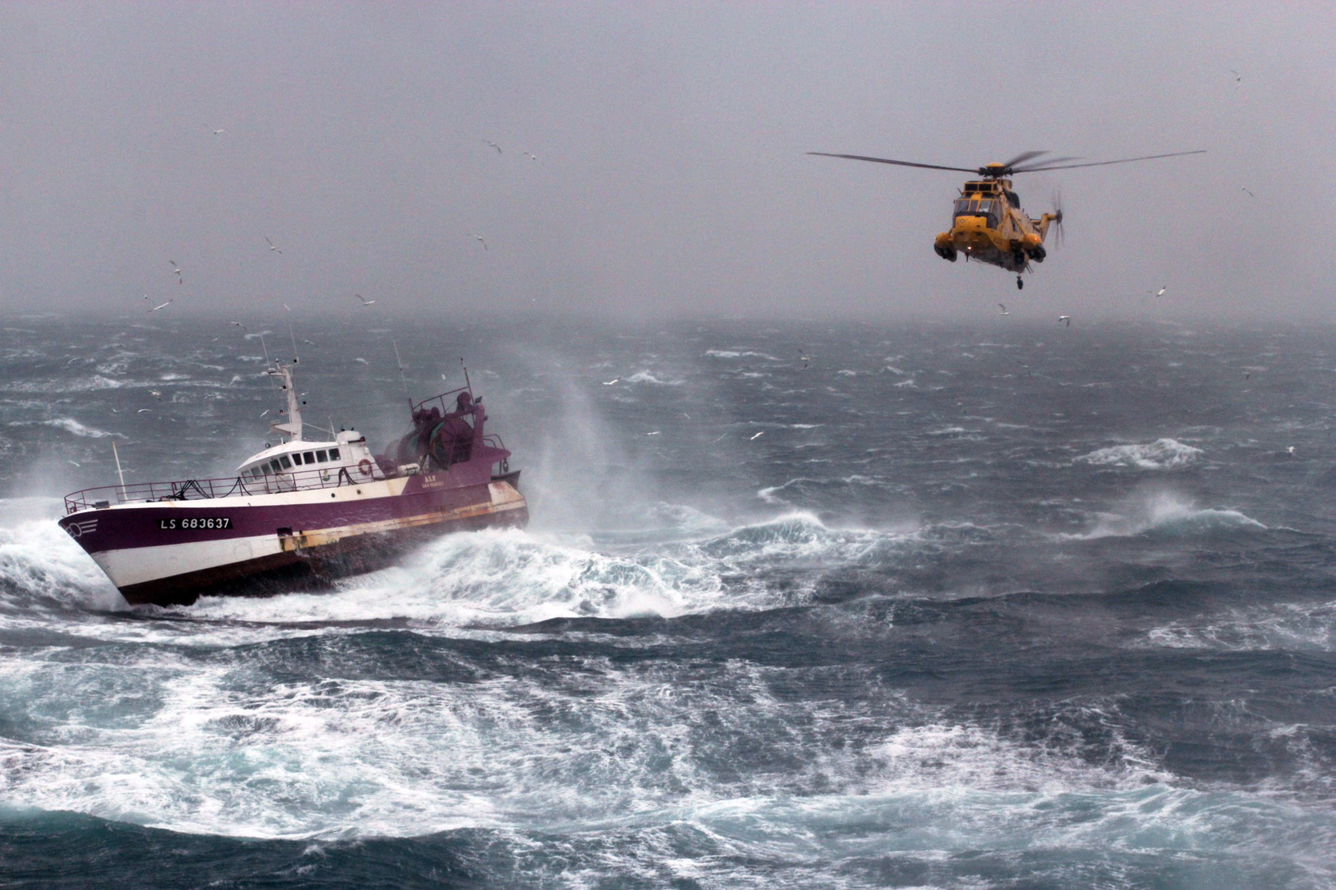 A Royal Air Force search and rescue Sea King helicopter comes to the aid of the French Fishing vessel Alf (LS683637) during a storm in Irish Sea. The helicopter crew rushed to the aid of an injured fisherman trapped by bad weather on the Irish Sea. The Royal Navy Hydrographic survey vessel HMS Echo was carrying out maritime security operations when she received a request for assistance from Milford Haven Coastguard. The coastguard had already scrambled both an RAF search and rescue helicopter and an RNLI lifeboat to rescue the fisherman, but weather conditions were deteriorating fast. The 5 metre high swell meant it was not possible to lower a winchman safely onto the French vessel’s deck and assist the fisherman who was showing signs of hypothermia. Once Echo was called in, the 3,500 tonne ship attempted to provide some shelter for the RNLI lifeboat to get alongside the French fishing vessel, Alf, but once again the weather prevented a rescue. This left them with no choice but to escort the fishing vessel closer inland before the helicopter was able to winch the injured fisherman to safety. © Crown Copyright 2013 Photographer: Royal Navy Image 45155248.jpg from This image is available for high resolution download at subject to the terms and conditions of the Open Government License at Search for image number 45155248.jpg For latest news visit Follow us